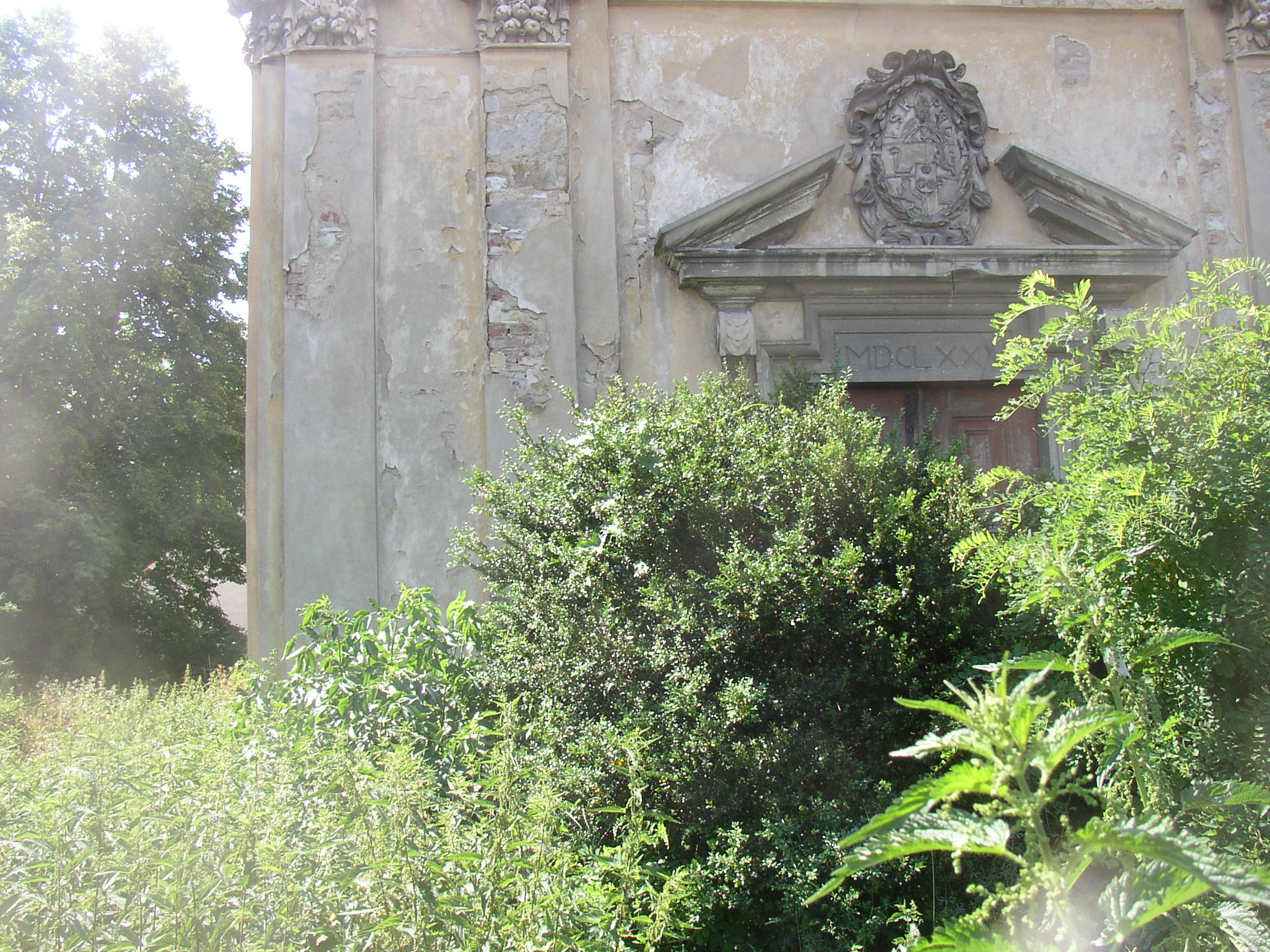 Dolánky nad Ohří, Litoměřice District. Front portal of St Giles church. The state of disrepair is evident from overgrown box shrub and other vegetation hindering from both the sight and entry. The 1675 date on the lintel refers to the constuction of the current Baroque version of the church (the cornerstone was laid on 14th April 1674 and the consecration took place on 1st September 1676).